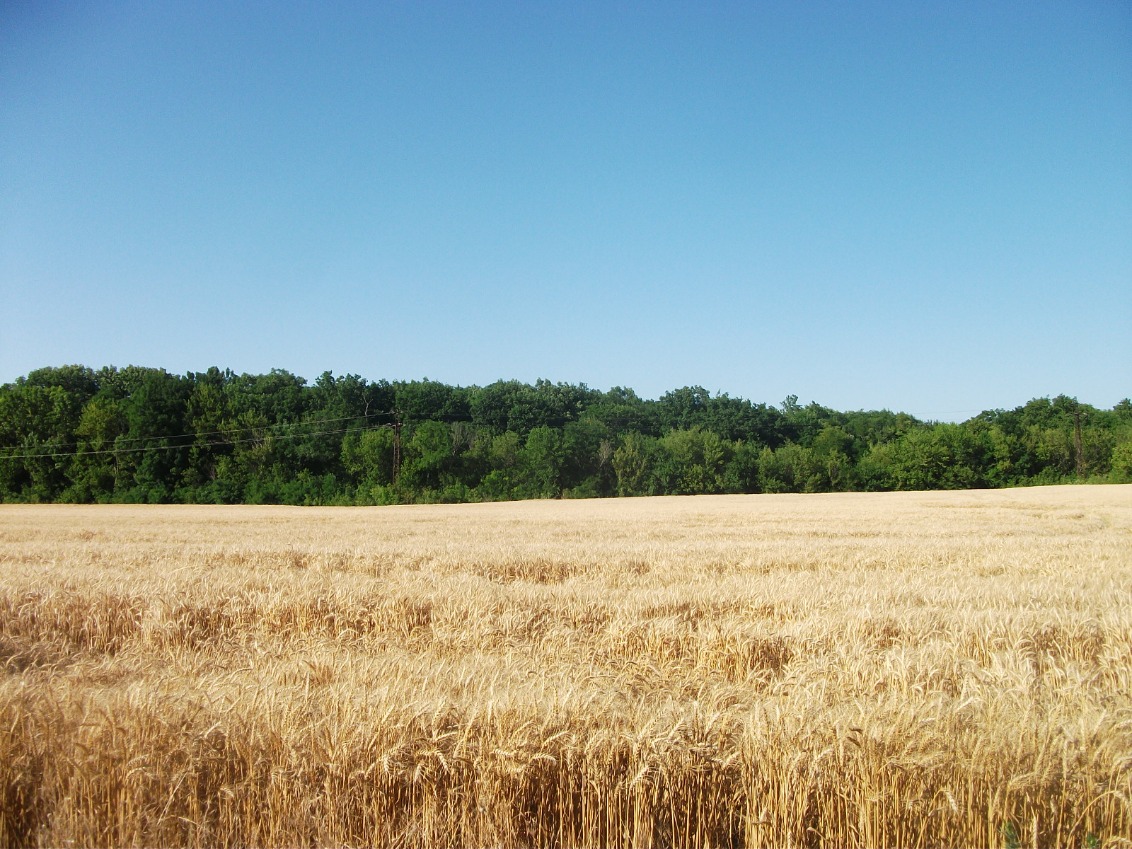 Field near Zichyújfalu, Hungary.